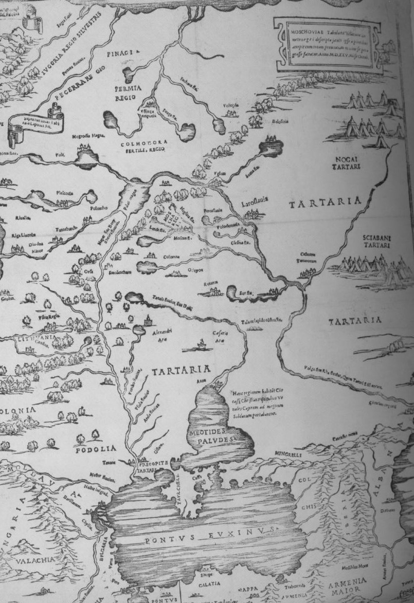 Map of Muscovy, illustrating Paolo Giovio's 'Muscovite Embassy'